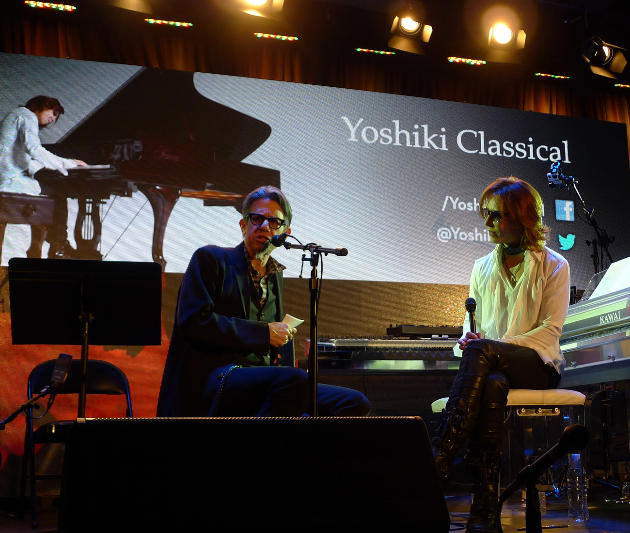 Yoshiki (of the rock band X Japan) performing live and speaking at the Grammy Museum in Los Angeles CA on Monday, August 26th, 2013. This interview plus 5-song mini-concert took place on the eve of the digital release of Yoshiki's highly anticipated new album "Yoshiki Classical".